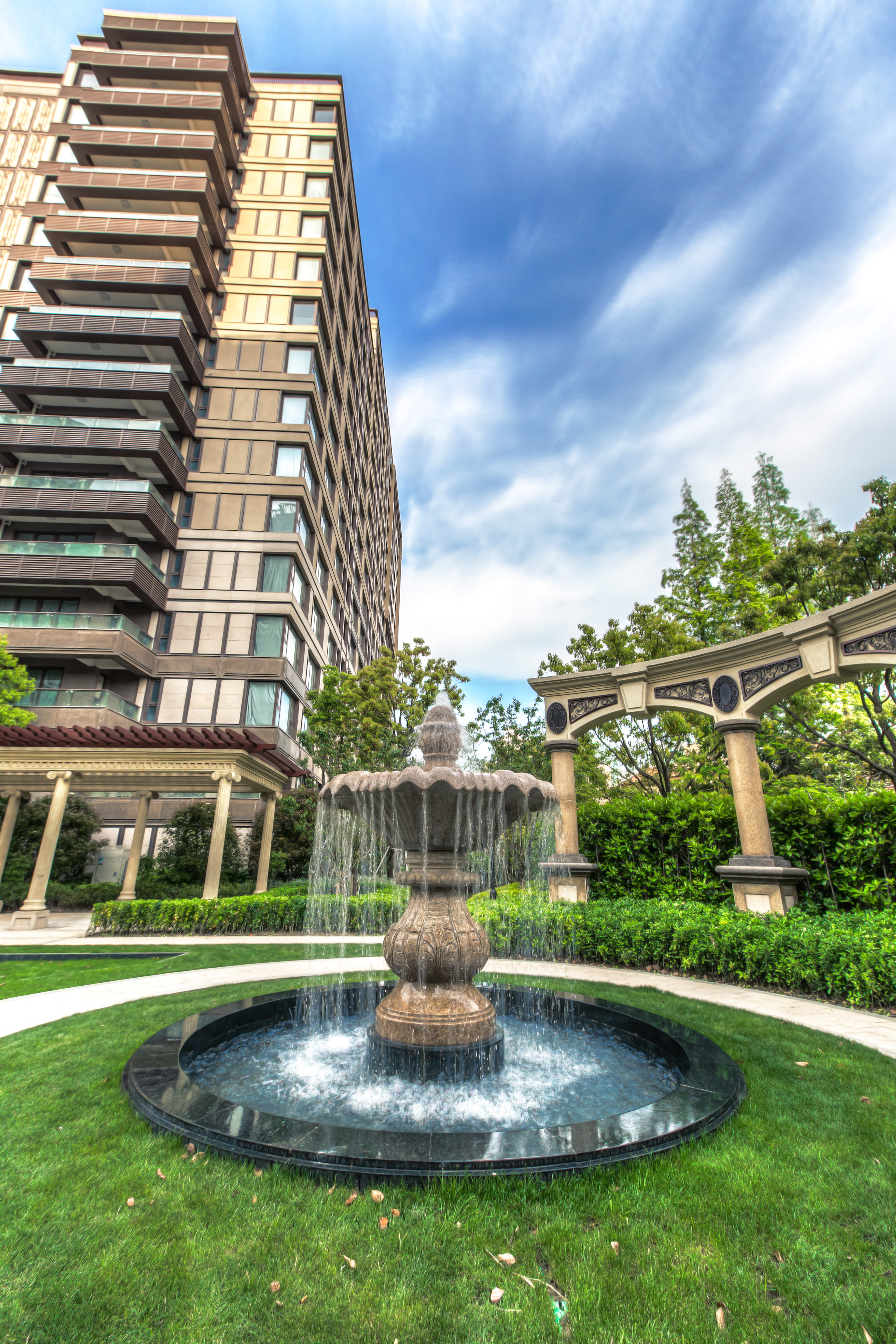 Grand Summit 嘉天匯